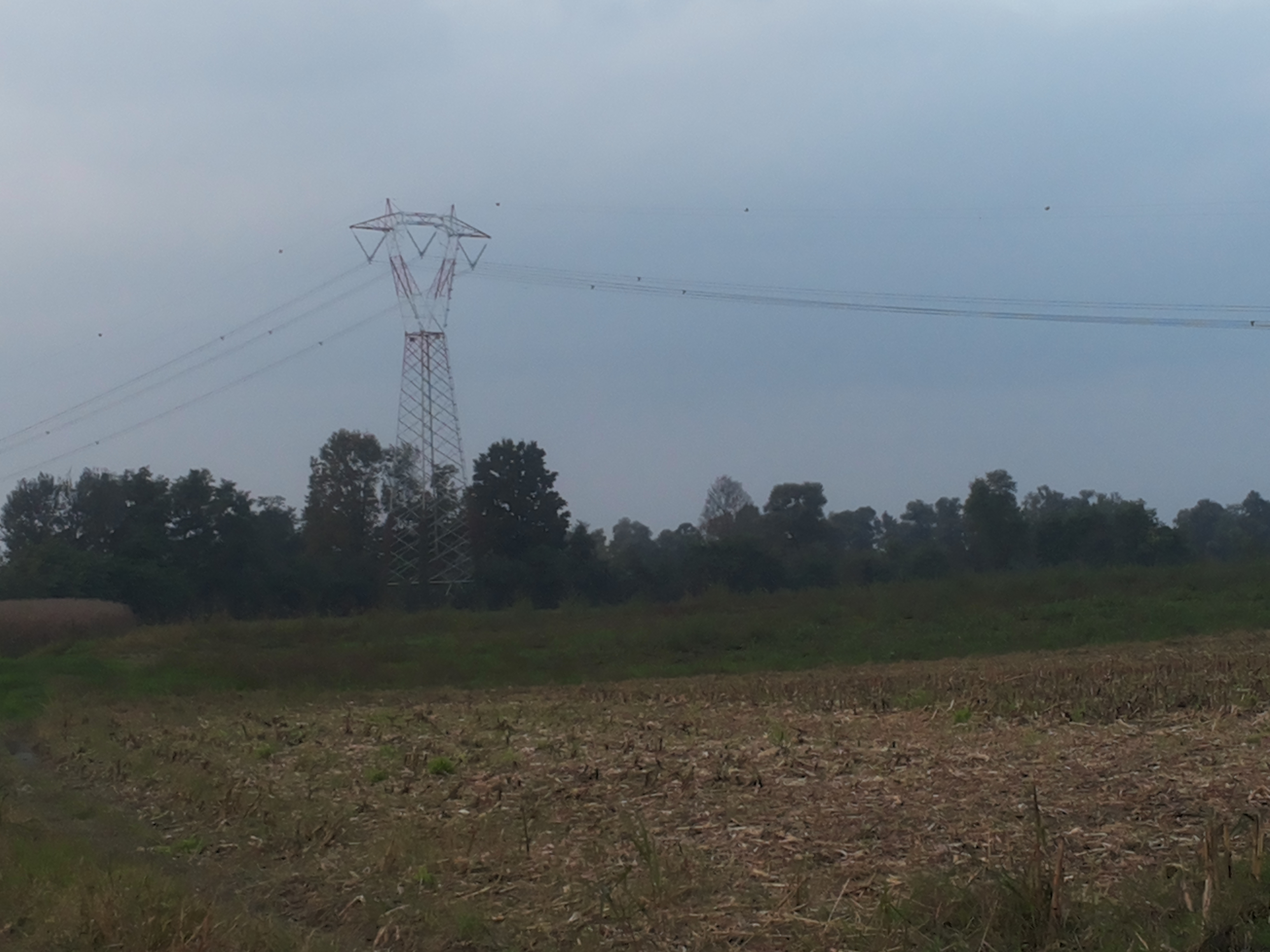 Exclave of Faule